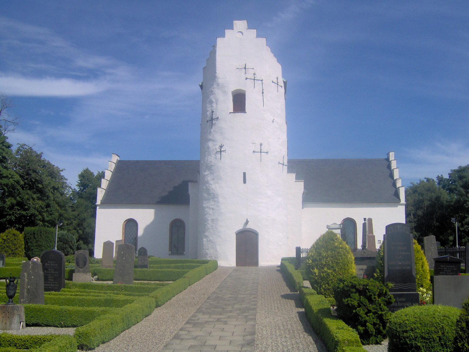 Hammarlöv church Source: taken by user july 7th 2005